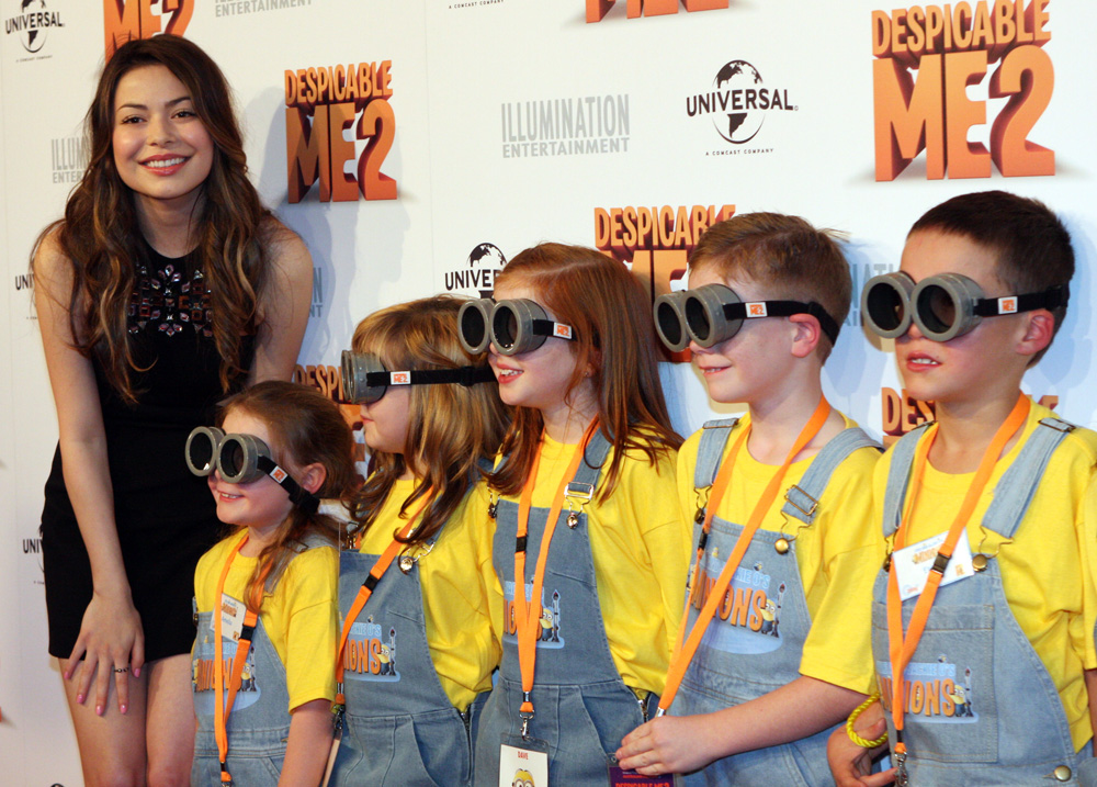 Miranda Cosgrove at Despicable Me 2 red carpet movie premiere at Event Cinemas, Bondi Junction, Sydney, Australia.